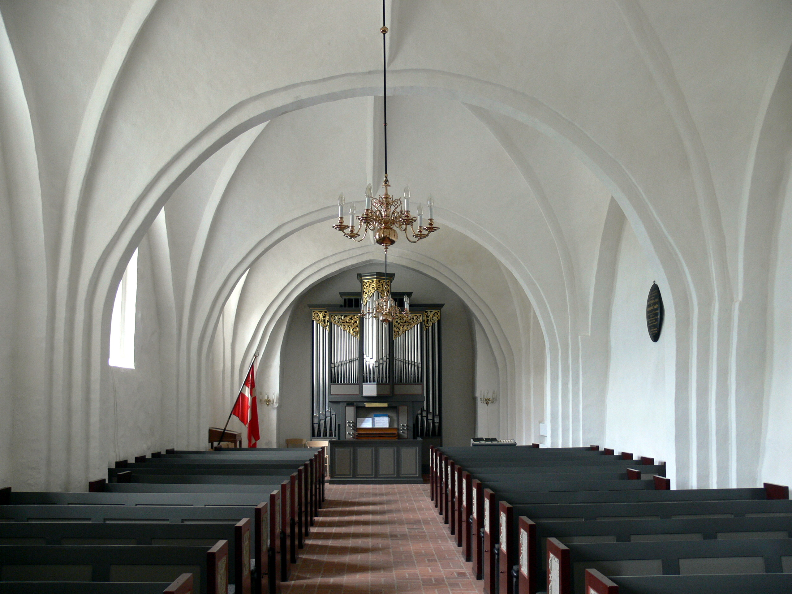 Emmerlev parish church ( Denmark ). Interior.